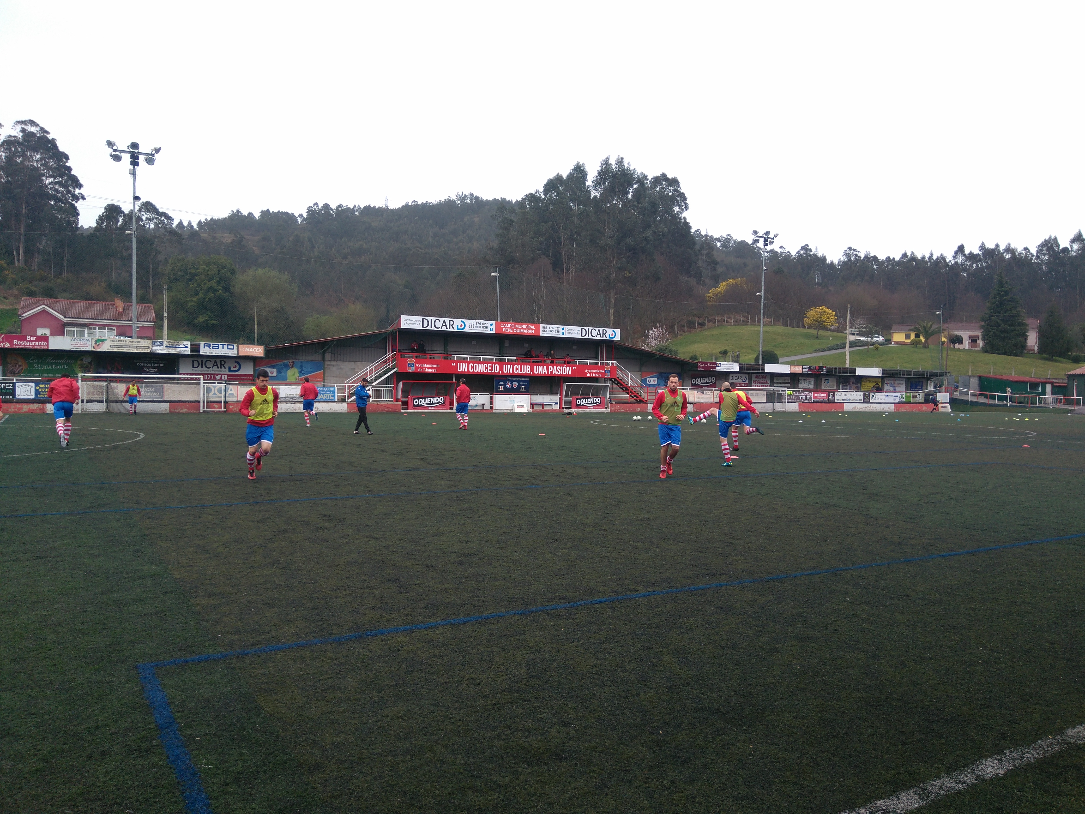 Estadio Pepe Quimarán, in Posada de Llanera, Asturias, Spain